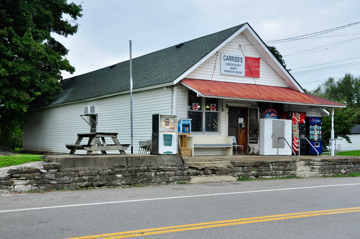 Carriss's Feed & Grocery Store is located at the south west intersection of Kentucky State Road 55 and Kentucky State Road 44 in Southville, Kentucky and has been in this location since 1915.